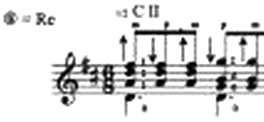 Incipit of a piece by Gaspar Sanz. Magnified at 500% with Lanczos algorithm, JPEG artifacts removed changing image's transfer function.